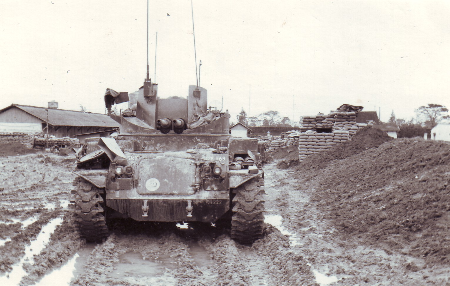 M 42 Duster, MACV compound at Quang Tri City, February 1968.